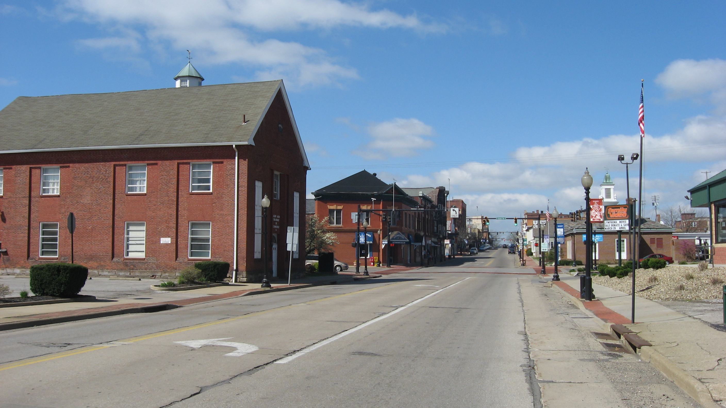 Looking westward on E. State Street (State Route 14) on the eastern edge of downtown Salem, Ohio, United States. These blocks are part of the Salem Downtown Historic District, a historic district that is listed on the National Register of Historic Places.